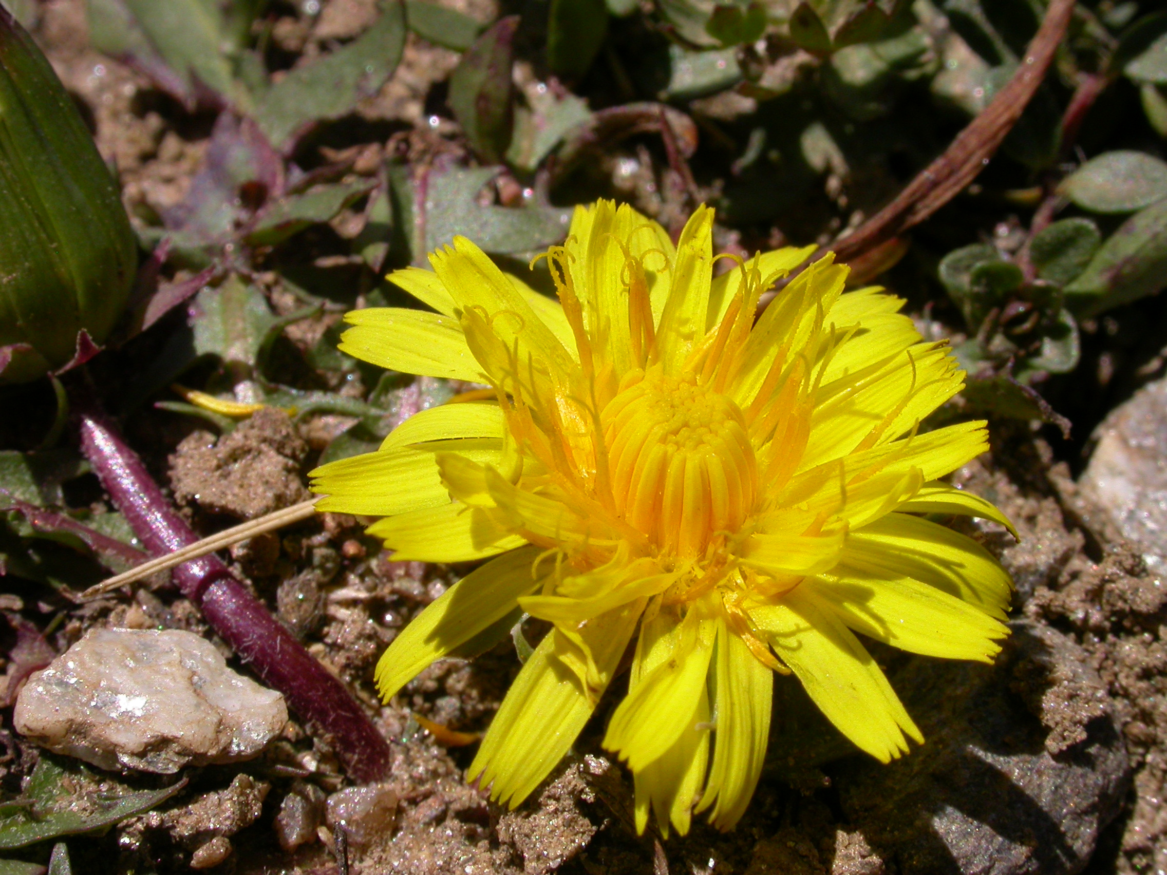 Taraxacum dissectum Zermatt, Riffelberg (Kanton Wallis, Switzerland), 2500 m Author: Barbara Studer – own photograph Date: 2.08.06